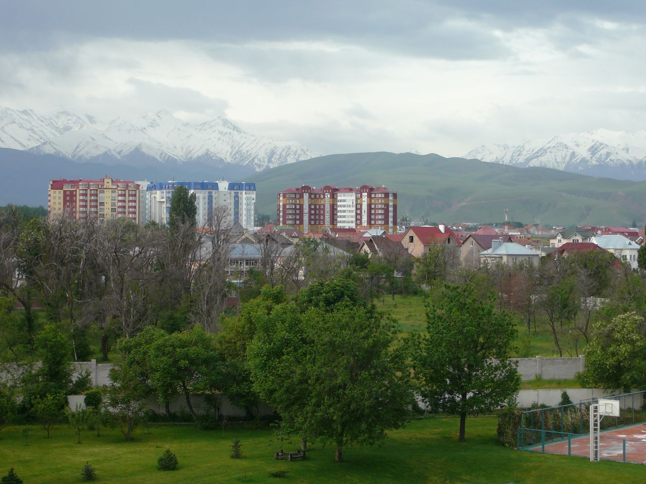 Bishkek